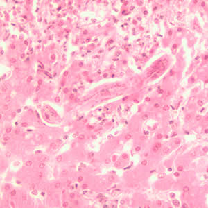 Longitudinal section of a Toxocara sp. larva in liver tissue stained with H&E.